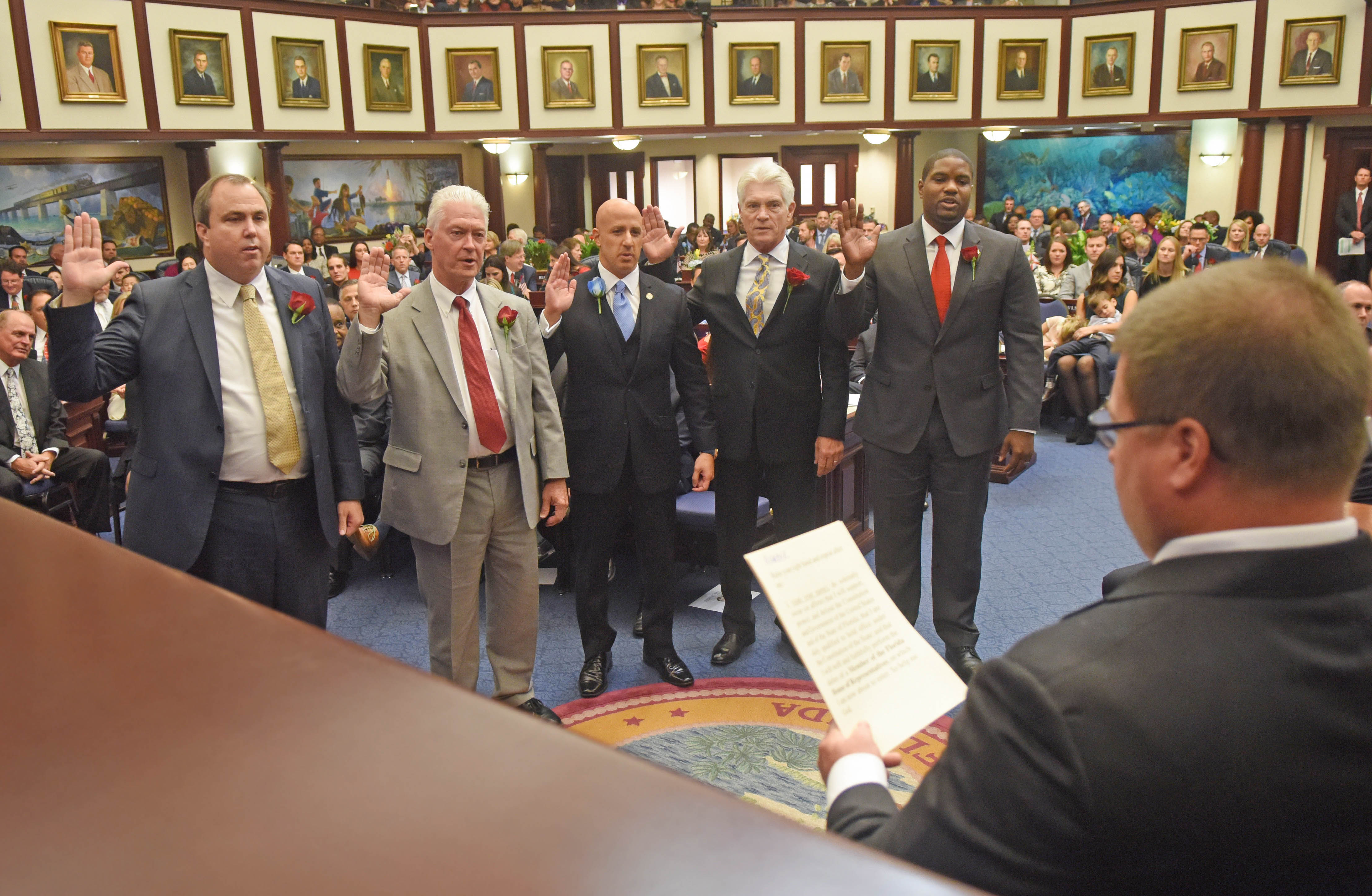 New House members are sworn in by Judge Nicholas Thompson, during Organization Session, November 22, 2016. From the left, Rep. Joe Gruters, R-Sarasota; Rep. Rick Roth, R-Loxahatchee; Rep. Joseph Abruzzo, D-Palm Beach; Rep. Michael Grant, R-Charlotte; and Rep. Byron Donalds, R-Naples.